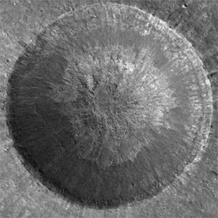 Linne lunar crater LROC view NAC M122129845